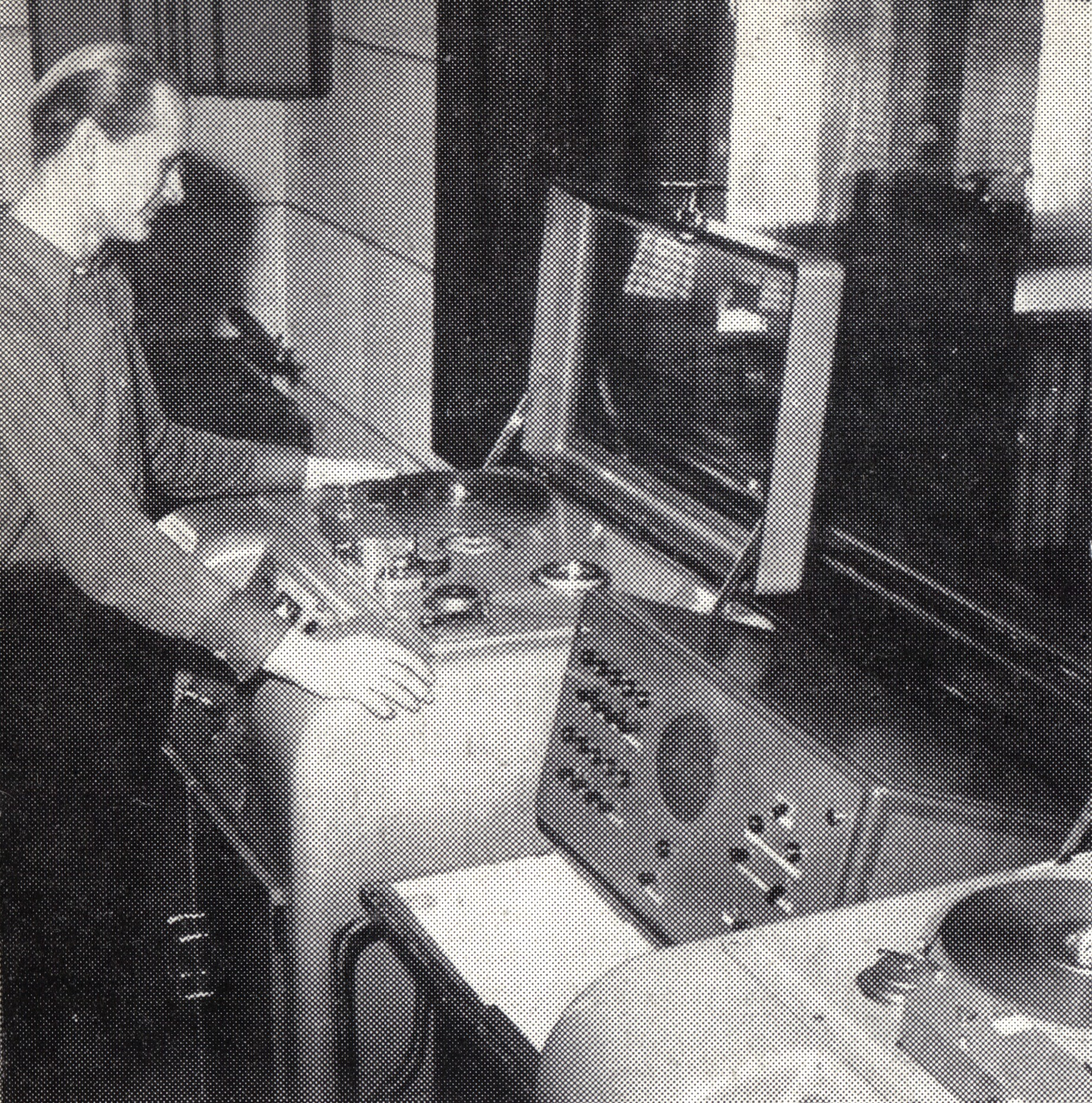 tape recorders used in Polish Radio throughout the 1950's and 60's